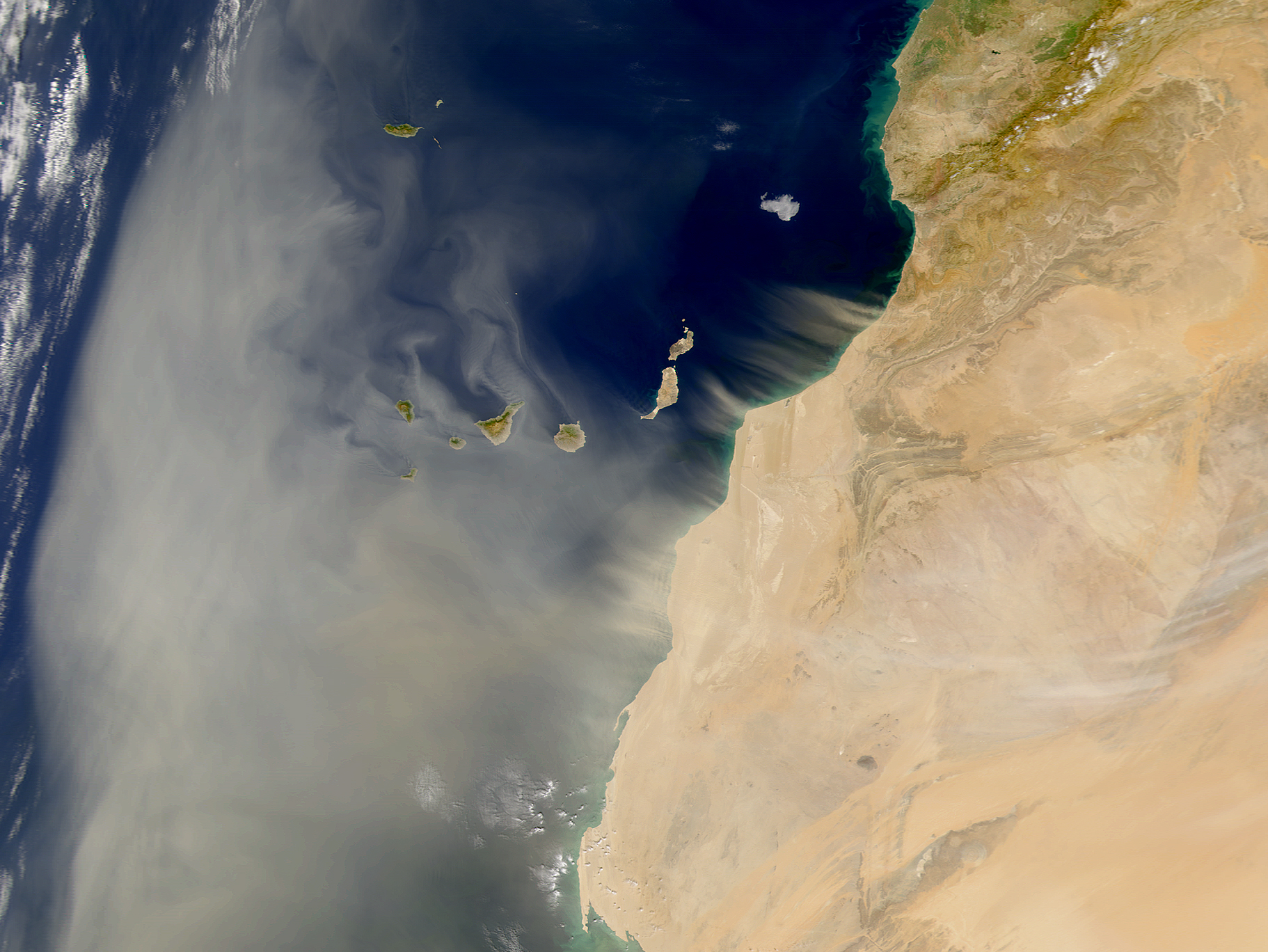 Major dust storms are a frequent occurence over northwest Africa and the Sahara Desert. This image of a massive dust storm was aquired on February 11, 2001 by the Sea-viewing Wide Field-of-view Sensor (SeaWiFS). SeaWiFS has seen similar storms every year since its launch in August 1997.